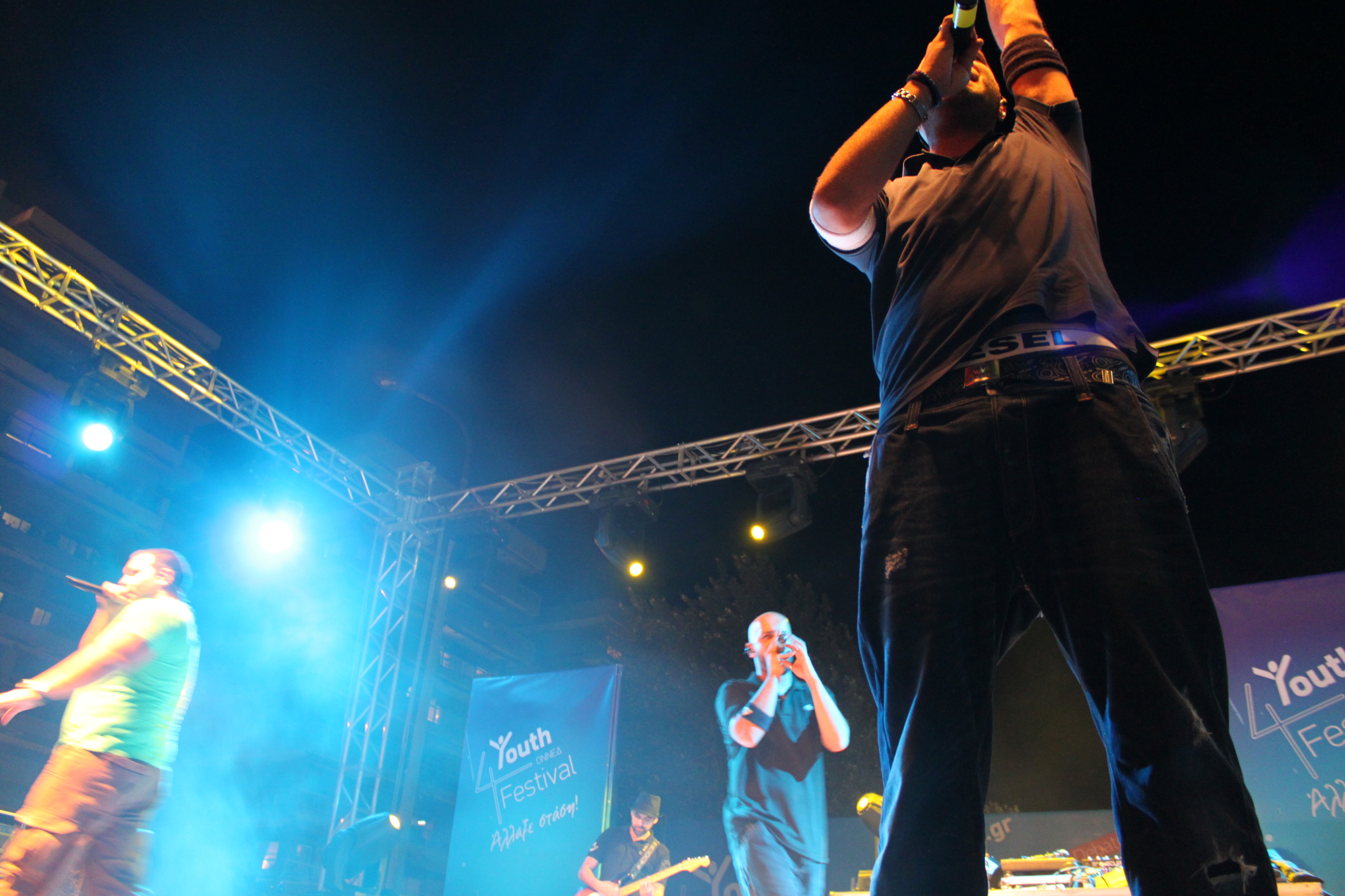 Stavento 4Youth Festival @ Thessaloniki